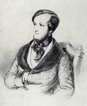 Portrait by Julius Ernst Benedikt Kietz, 1840-1842